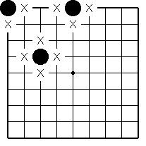 Go Course dia 1.3